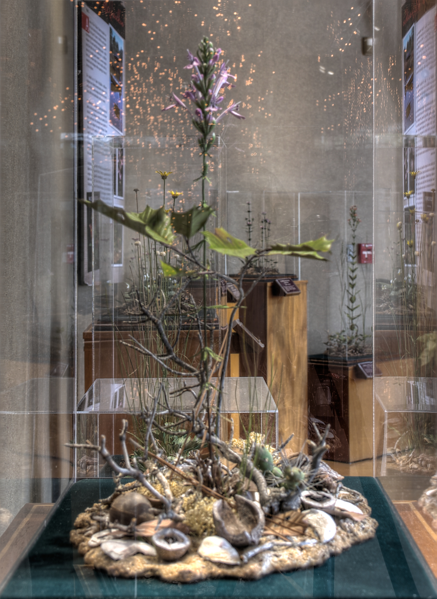 Dicerandra radfordiana (Radford's Mint) exhibit at Callaway Gardens